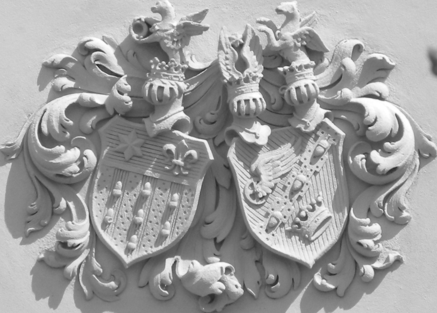 Coats of arms of Béla Polyák de Szabolcs and Klara Eichler. Tower facade of manor house in Trenčín-Záblatie, Slovakia. Coat of arms of Polyák de Szabolcs (szabolcsi Polyák) described in Kempelen Béla: Magyar nemes családok, Tomus 8.